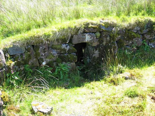 Tungadale Souterrain. The entrance to Tungadale Souterrain, a seven metre long underground passage constructed in the bronze age. This one is very remote and very tricky to locate on a steep hillside in a forest.